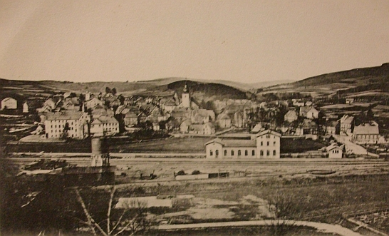 Olpe (Germany)